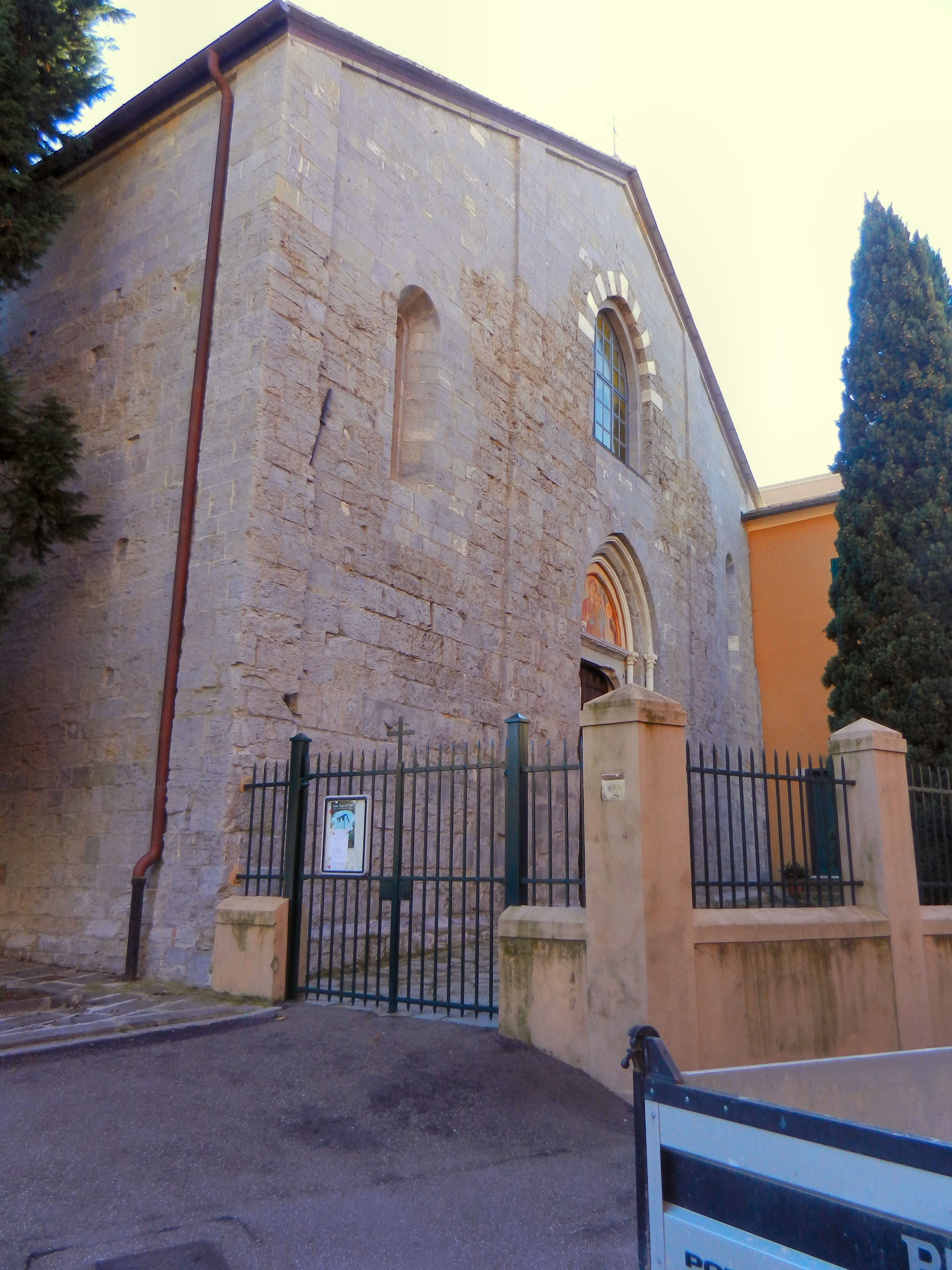 Genoa, quarter of Albaro, church of Santa Maria del Prato, facade